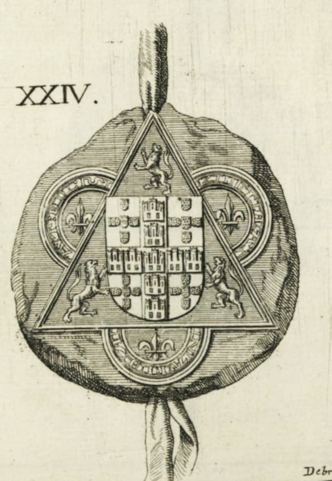 Seal of Afonso Sanches, bastard son of Dinis I